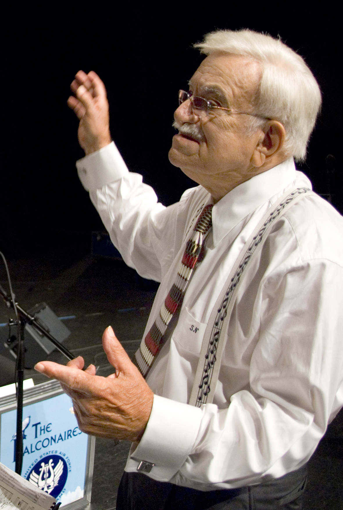 Bandmaster Sammy Nestico rehearses with The Falconaires from the U.S. Air Force Academy Band before a show at the Lila Cockrell Theatre in San Antonio.